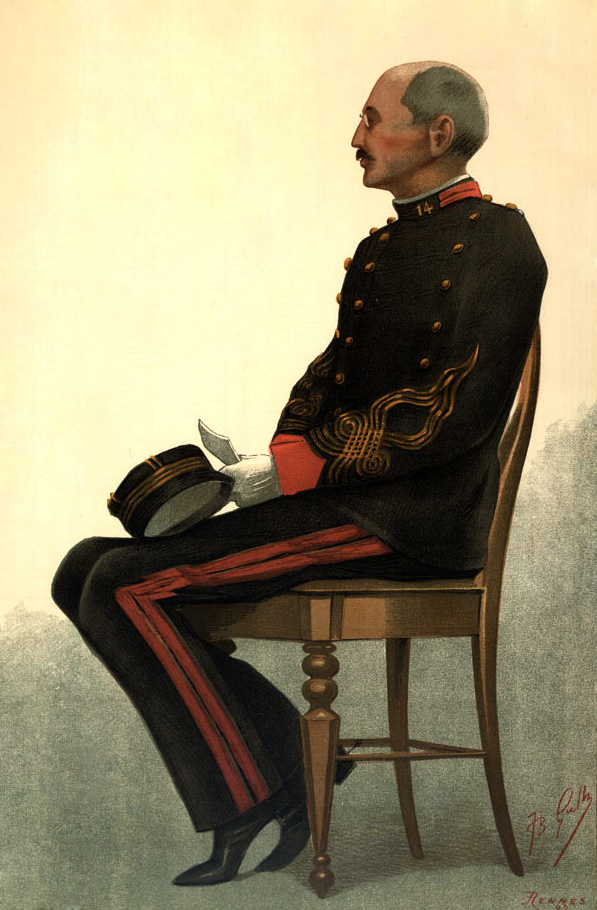 Caricature of Capt Alfred Dreyfus. Caption reads "at Rennes".